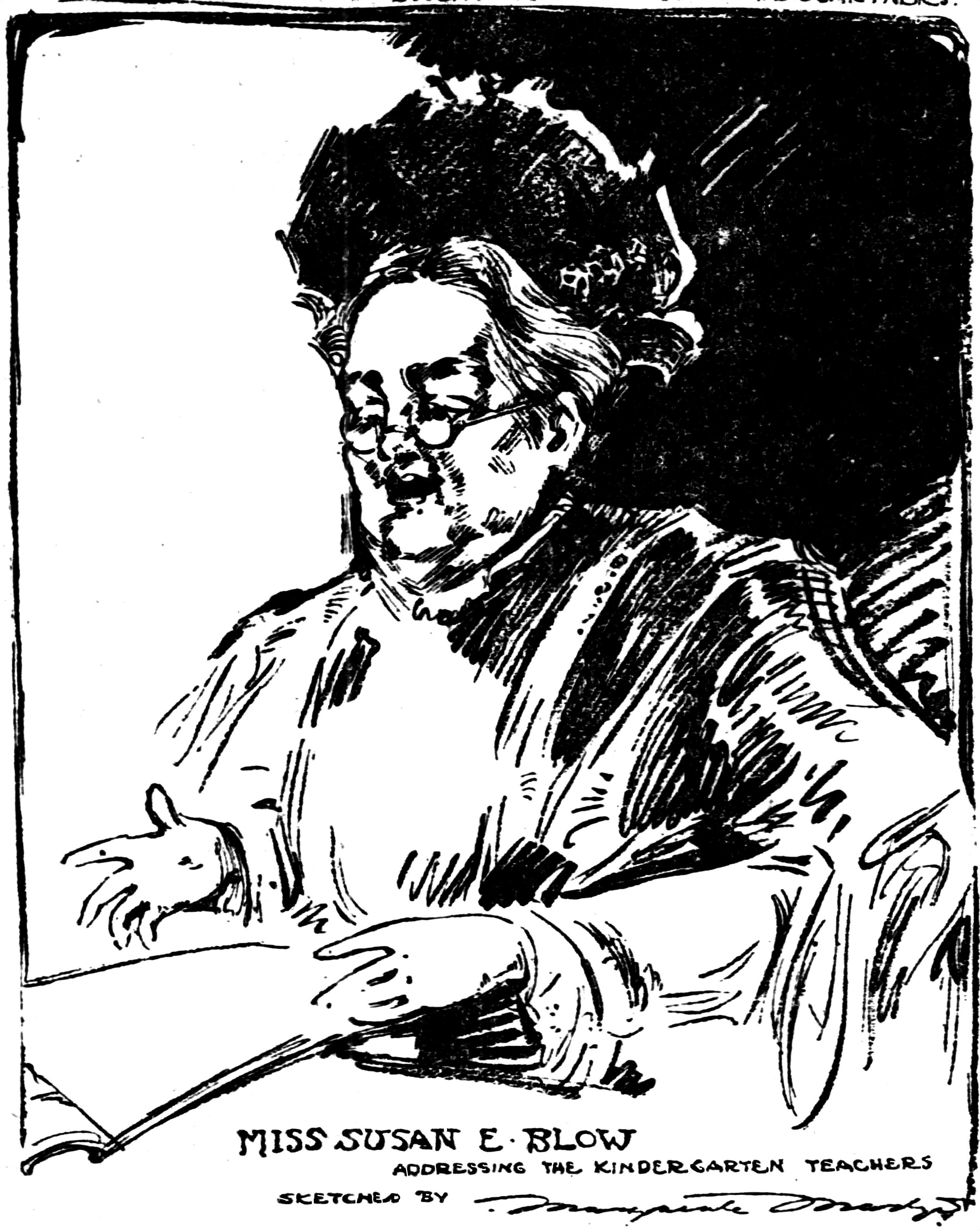 Sketch by Marguerite Martyn of Susan E. Blow of kindergarten fame, 1909